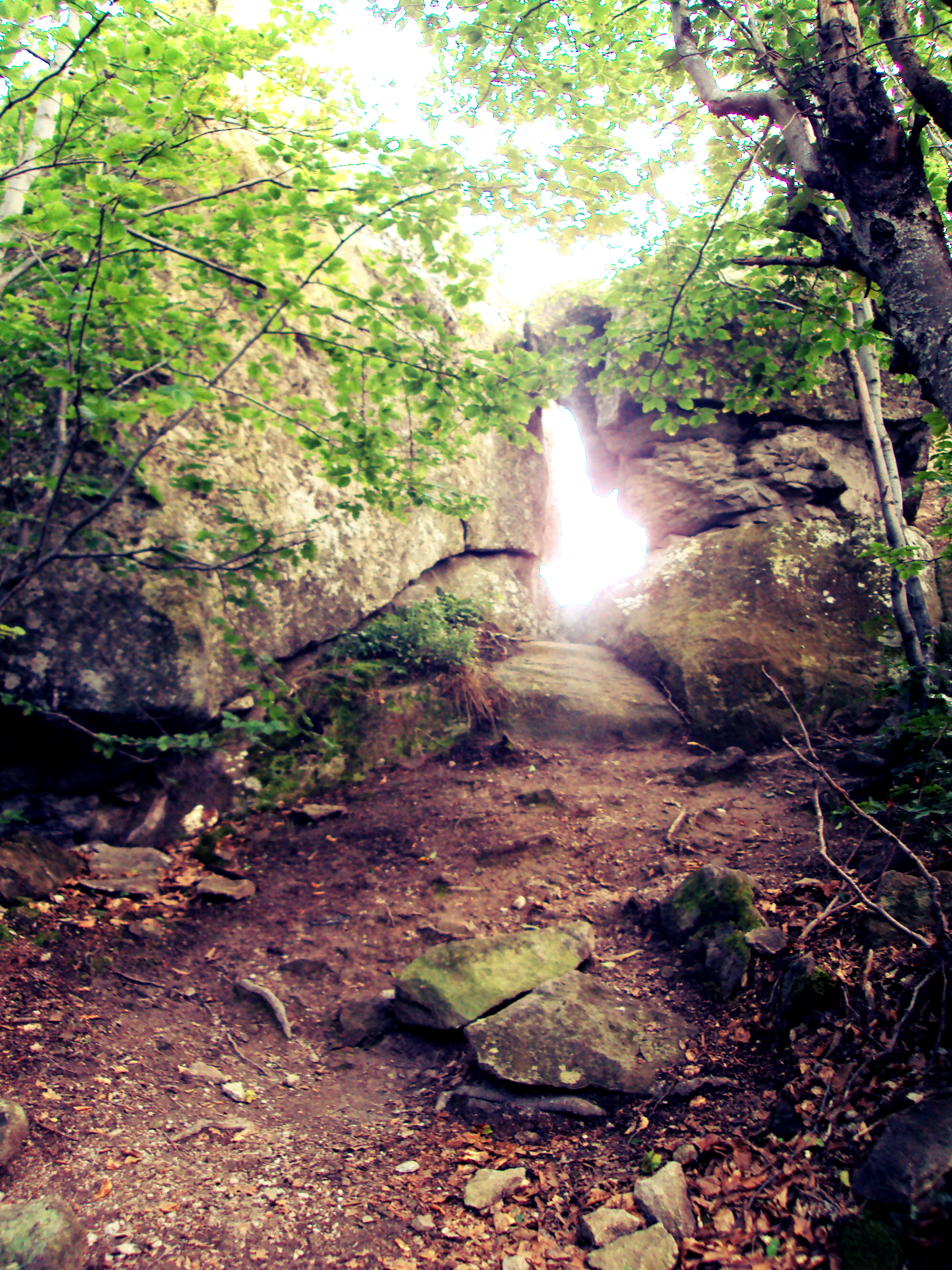 Arch Belintash Rodopi BG